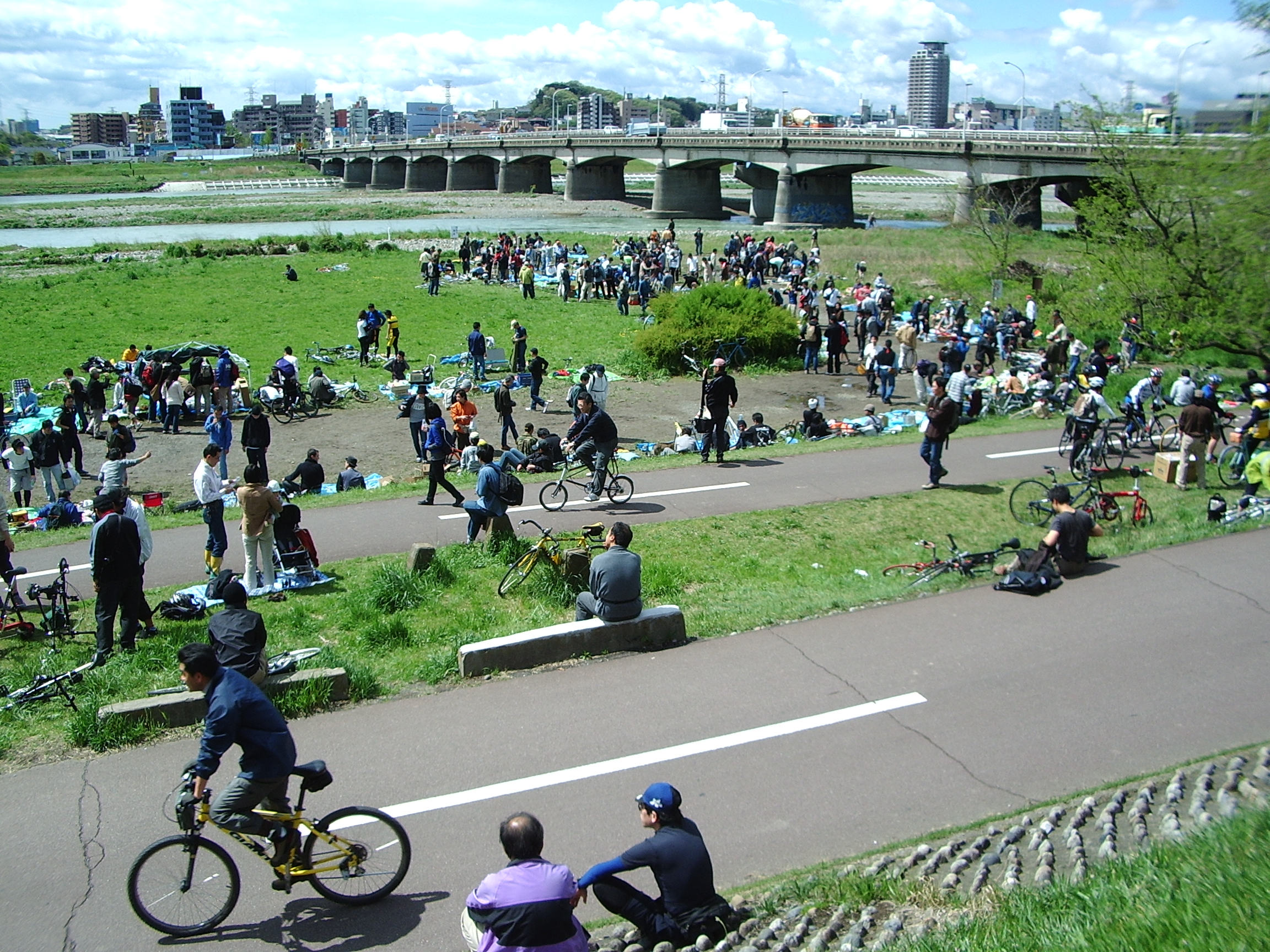 Sekidobashi flea market, Fuchu, Tokyo